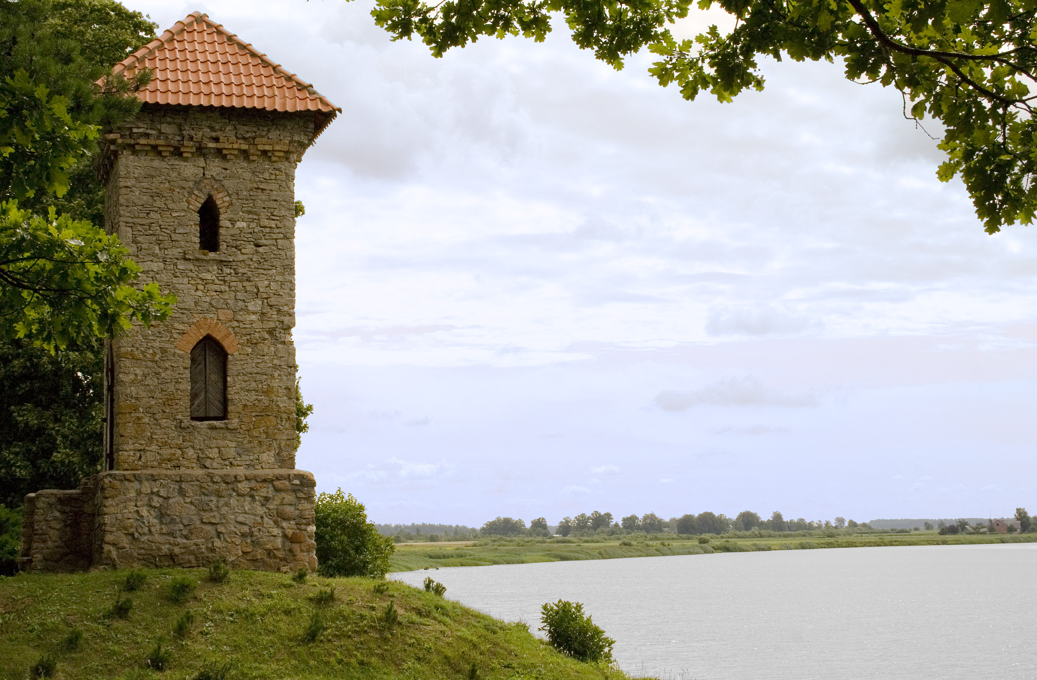 Tetele or Tetelminde tower. Located approx. 9 km from city Jelgava (Latvia) at the river Lielupe in territory of the ex-Tetelminde manor house. Built arround 1840 as place from where enjoy the landscape.